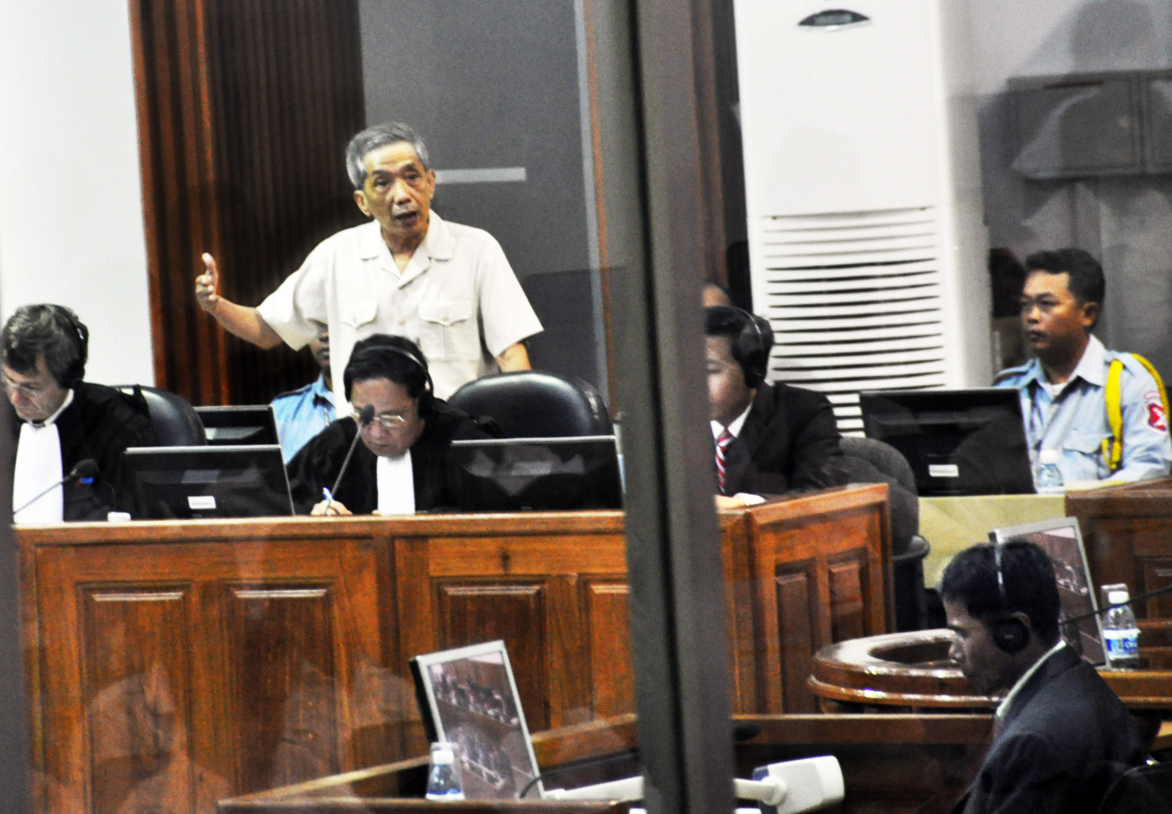 Kang Kek Iew (also Kaing Guek Eav or Duch) before the Extraordinary Chambers in the Courts of Cambodia. He was responding to the testimony given by his former subordinate Him Huy who was a Khmer Rouge prison guard.